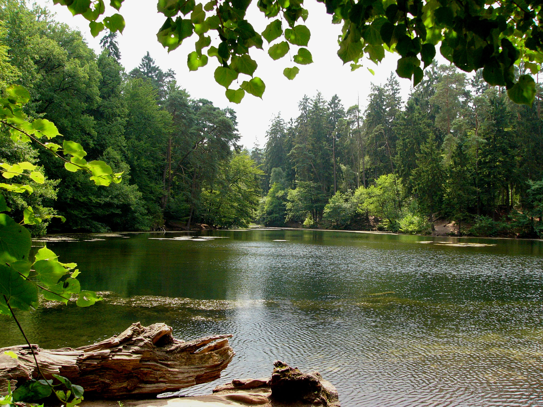 Donop's Pond in Teutoburg Forest, Germany